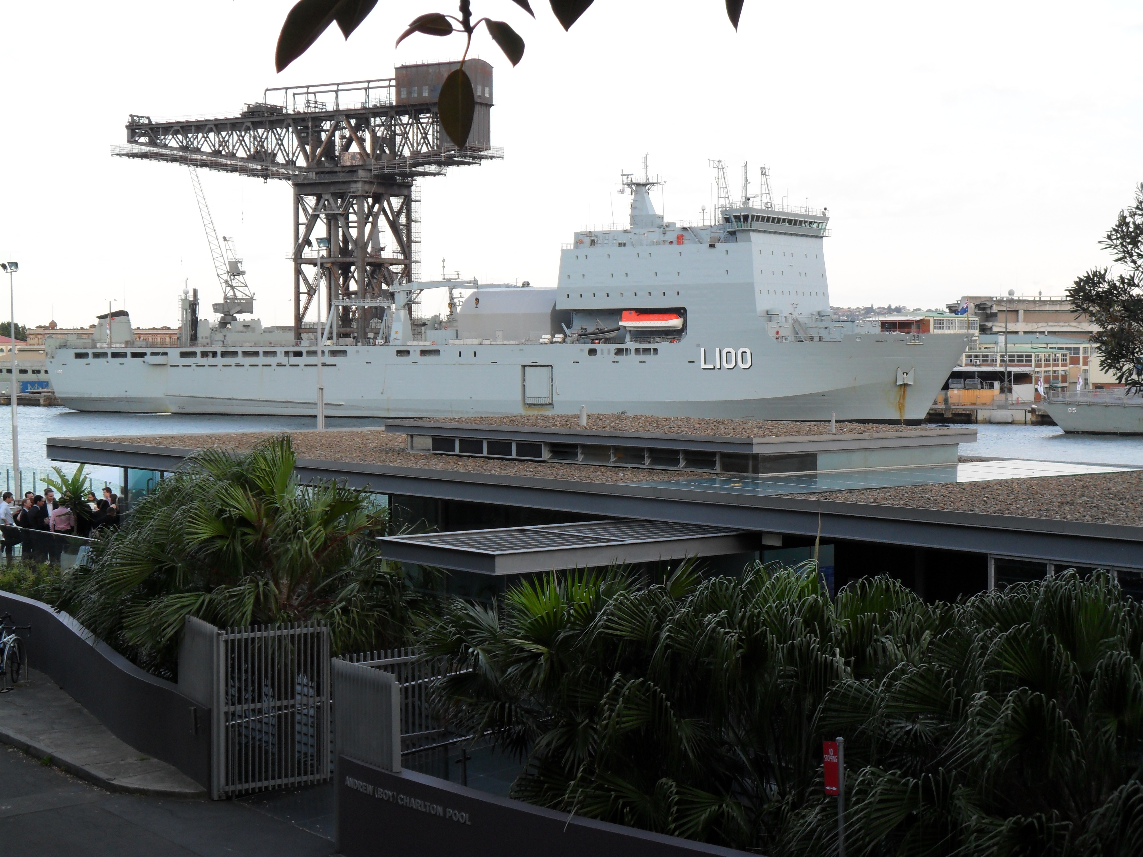 HMAS Choules, on day of arrival at Sydney, Garden Island, NSW